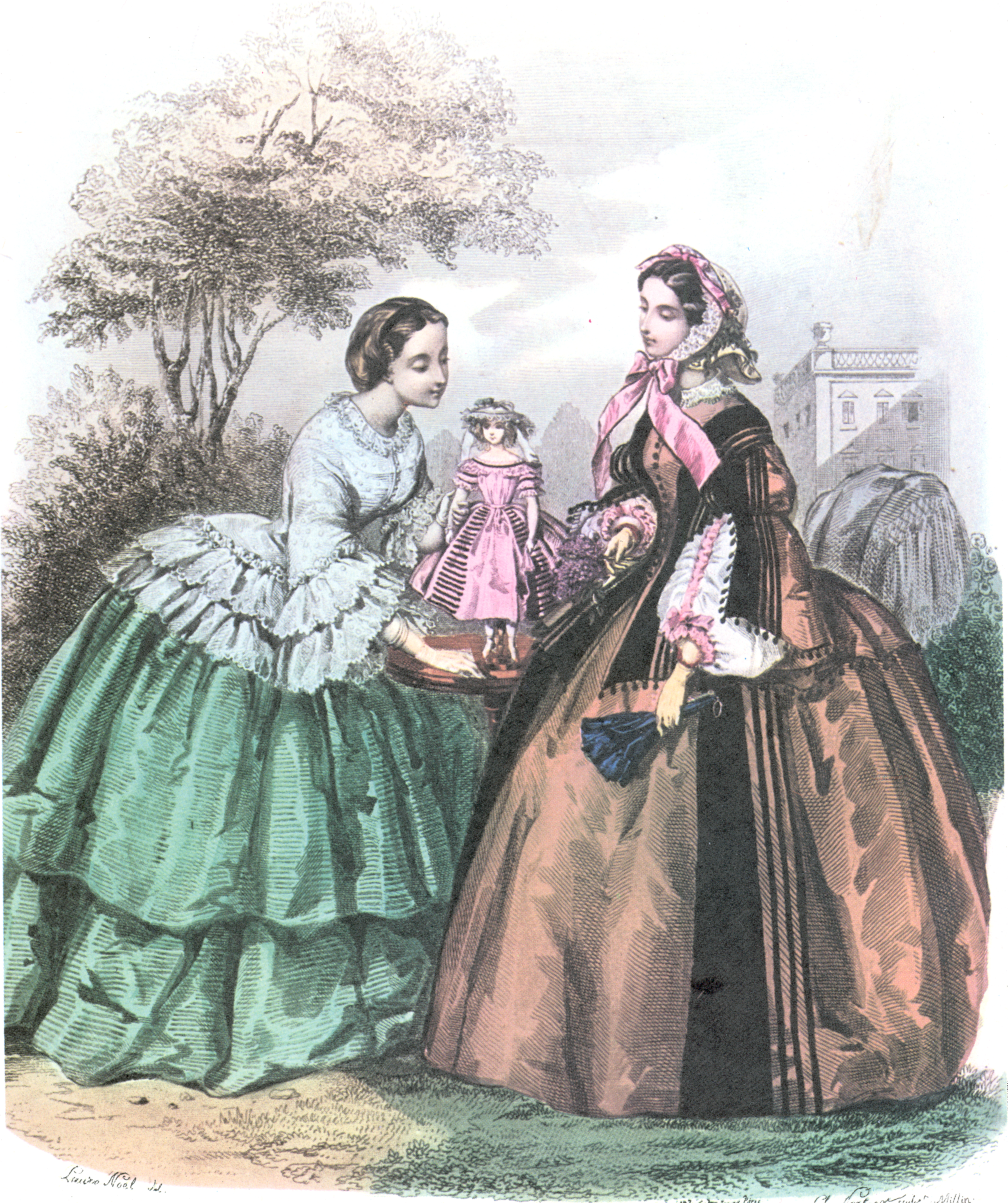 A young girl with a doll and her mother, all displaying contemporary fashion. Further description (French)